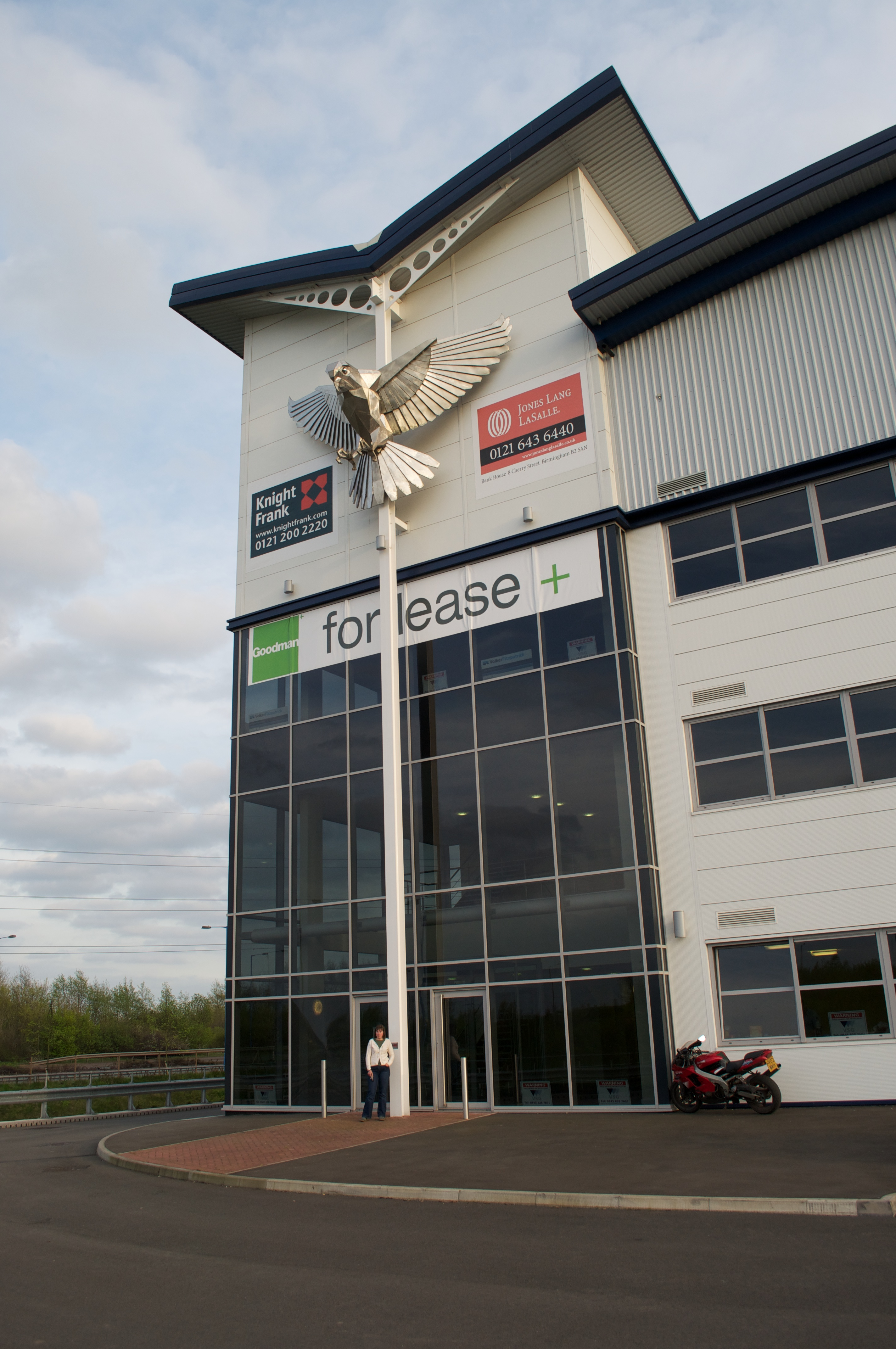 Hovering kestrel by John McKenna sculptor on the Black Country Spine route, 6m wingspan fabricated in stainless steel.